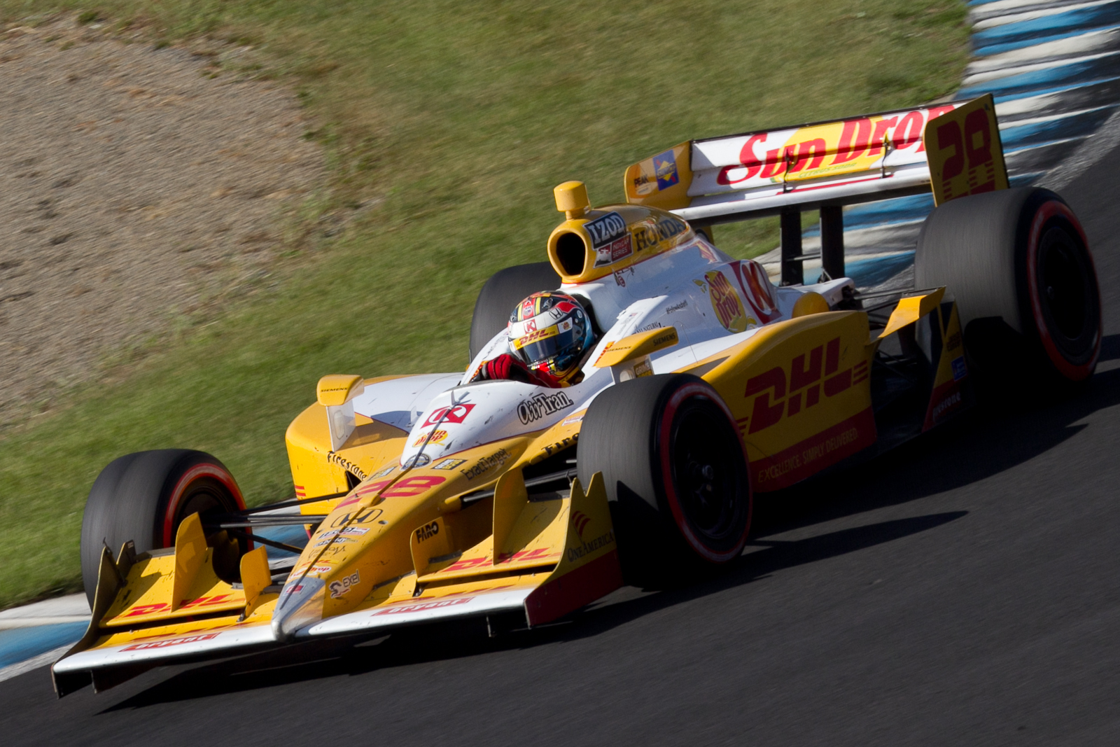 IndyCar Series 2011 Rd.15 Indy Japan 300: Ryan Hunter-Reay (Andretti Autosport)